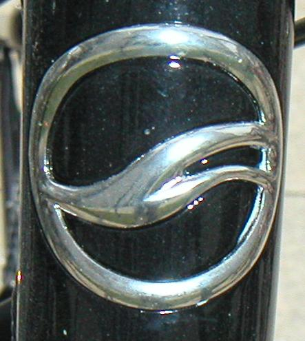 Taken by Andrew Dressel